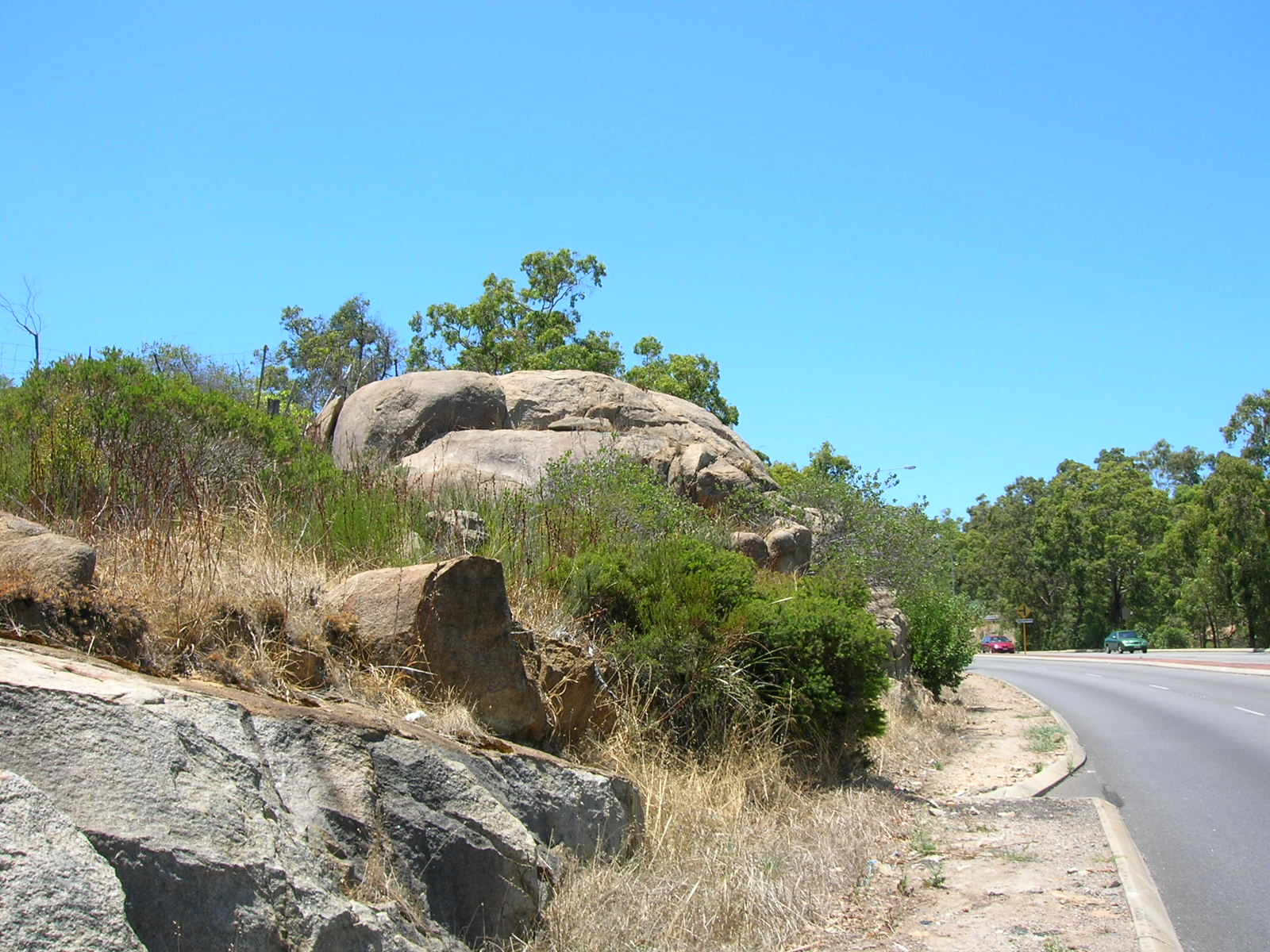 Chippers Leap on the Great Eastern Highway - Greenmount, Western Australia - compare with 2012 image - File:Chippers Leap from west.jpg.